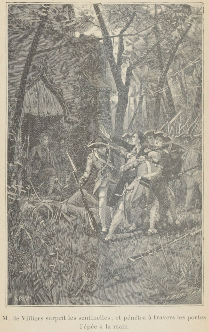 « Monsieur de Villiers surprised the sentinels, and entered through the gates with his sword in his hand. » Illustration published in 1913 in Les français au Canada : Montcalm et Lévis (The French in Canada: Montcalm and Lévis) by Father Henri-Raymond Casgrain (1831 - 1904). Possible representation of an action of François Coulon de Villiers against an English fort in 1754 - 1757. Attack of Fort Granville in Pennsylvania in 1756? Where from another English fort in Virginia in 1757?